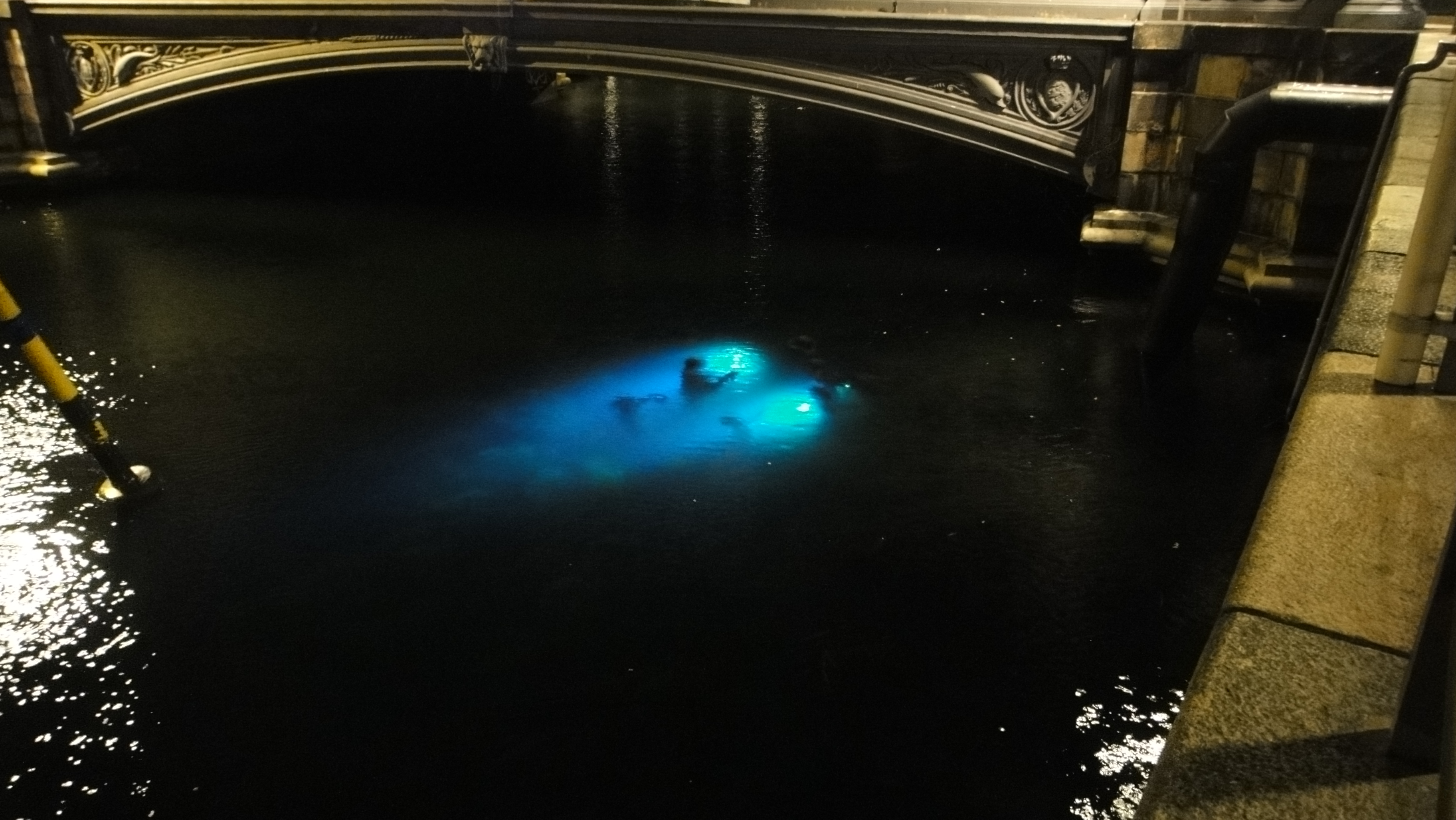 Agnete and the Merman is a group of bronze sculptures in Copenhagen, Denmark, located underwater next to the Højbro Bridge. made in 1992 by the Danish sculptor, Suste Bonnen